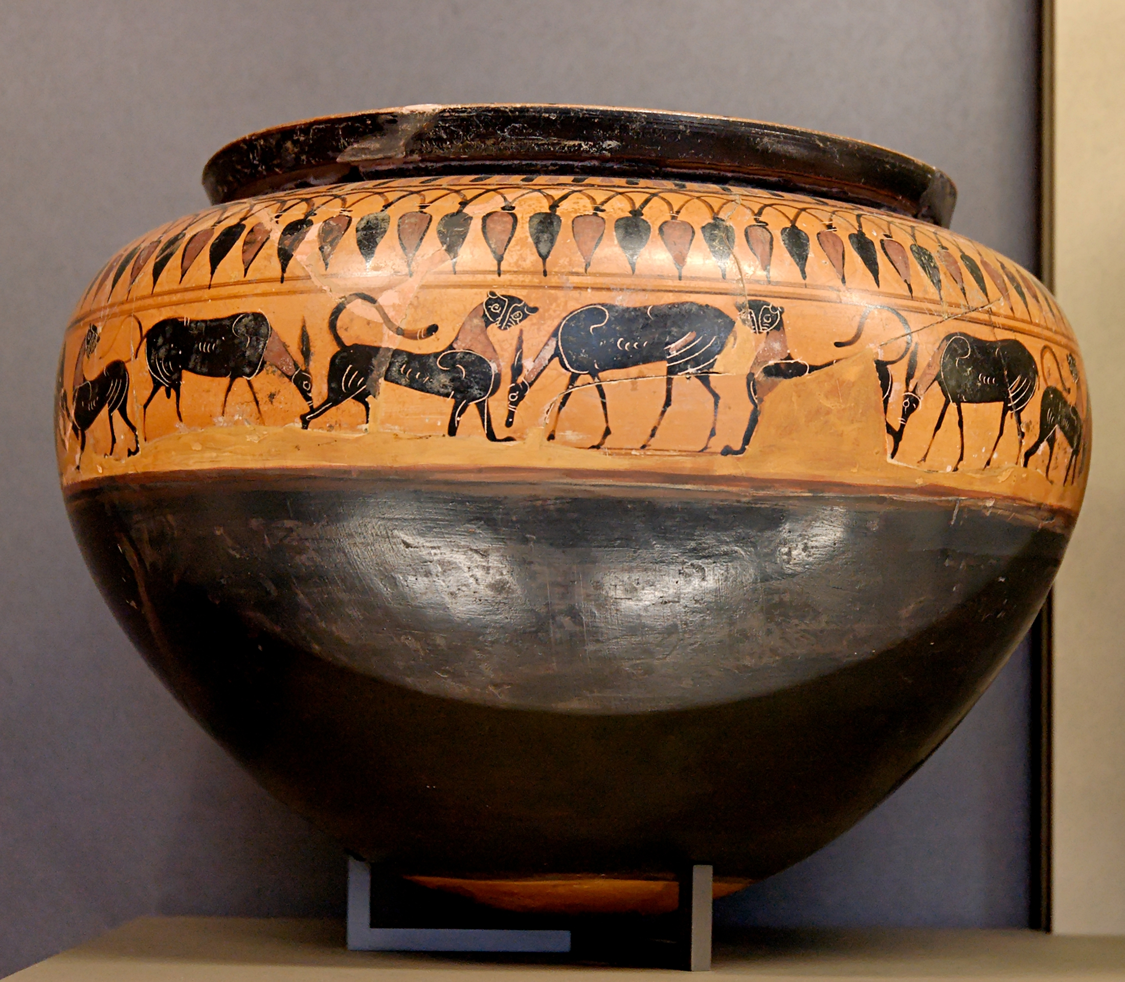 Animals. Attic black-figure dinos